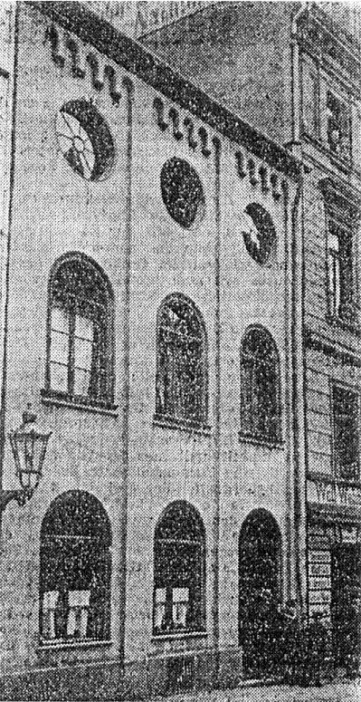 Synagogue in Ząbkowice Śląskie